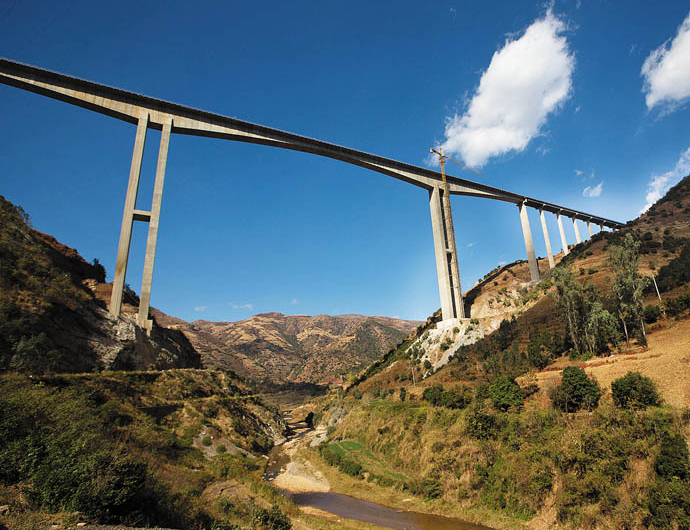 Maguo River Bridge